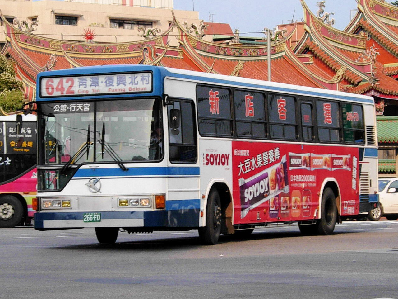 Taipei City Bus 642（Operated by Sindian Bus Co.）